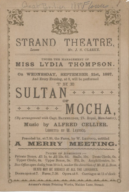 Program of the performance of the opera "The Sultan of Mocha" at the Strand Theatre (1887)